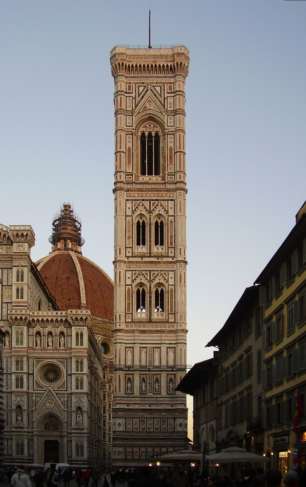 Giotto's tower